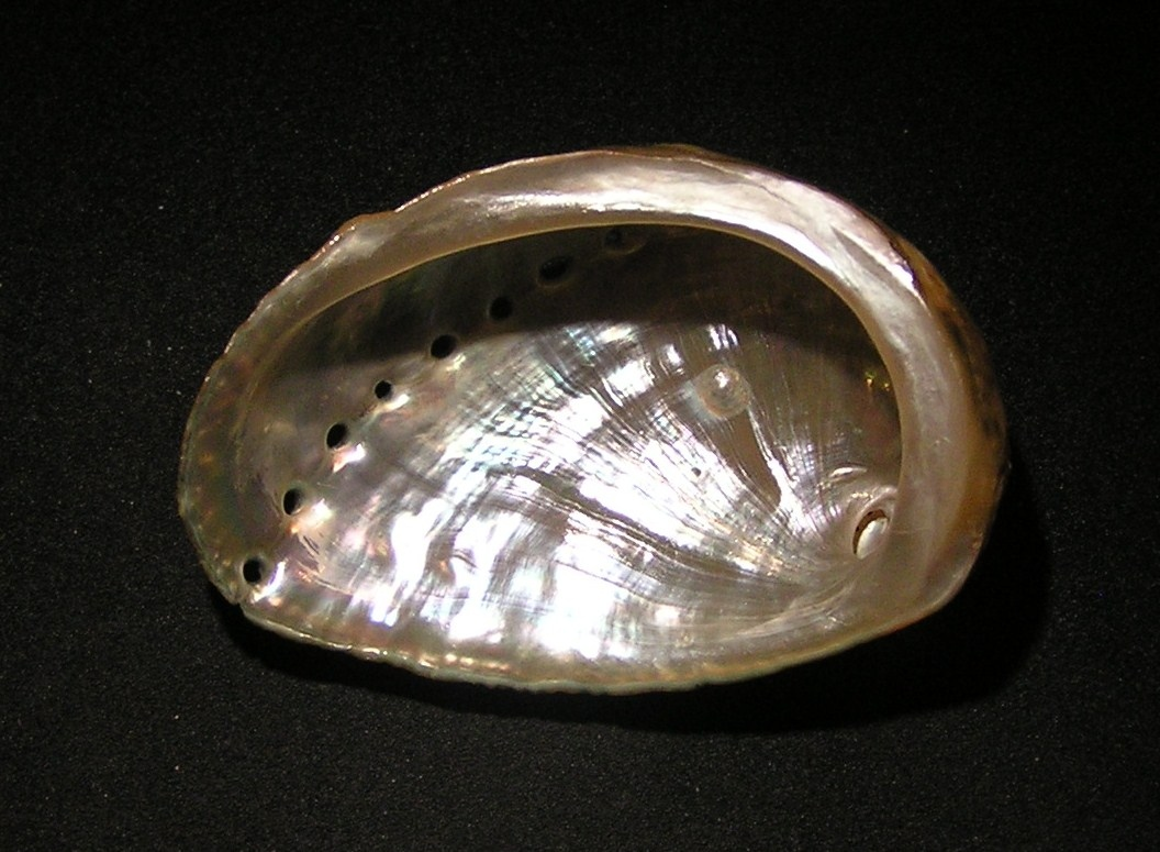 Haliotis fatui Geiger, 1999; family Haliotidae; Tonga Island